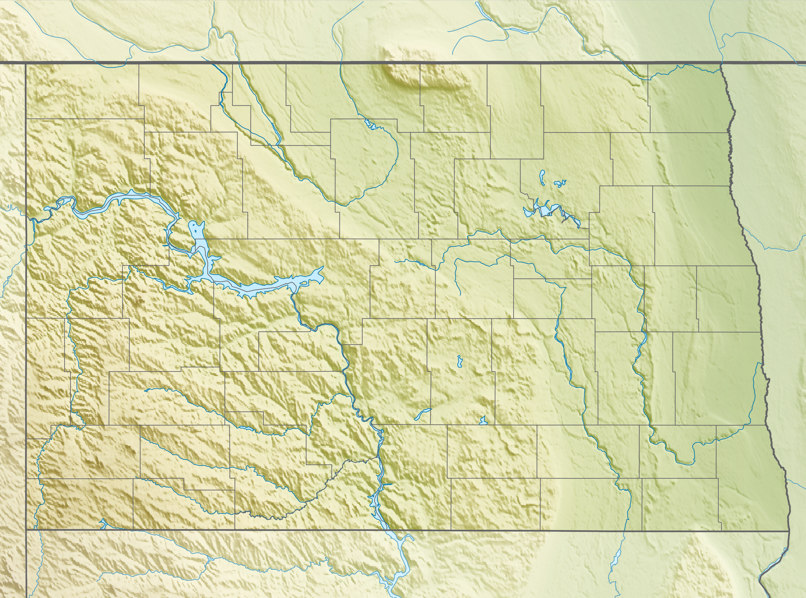 Physical location map of North Dakota, USA Equirectangular projection, N/S stretching 150.0 %. Geographic limits of the map: N: 49.4° N S: 45.5° N W: 104.3° W E: 96.4° W